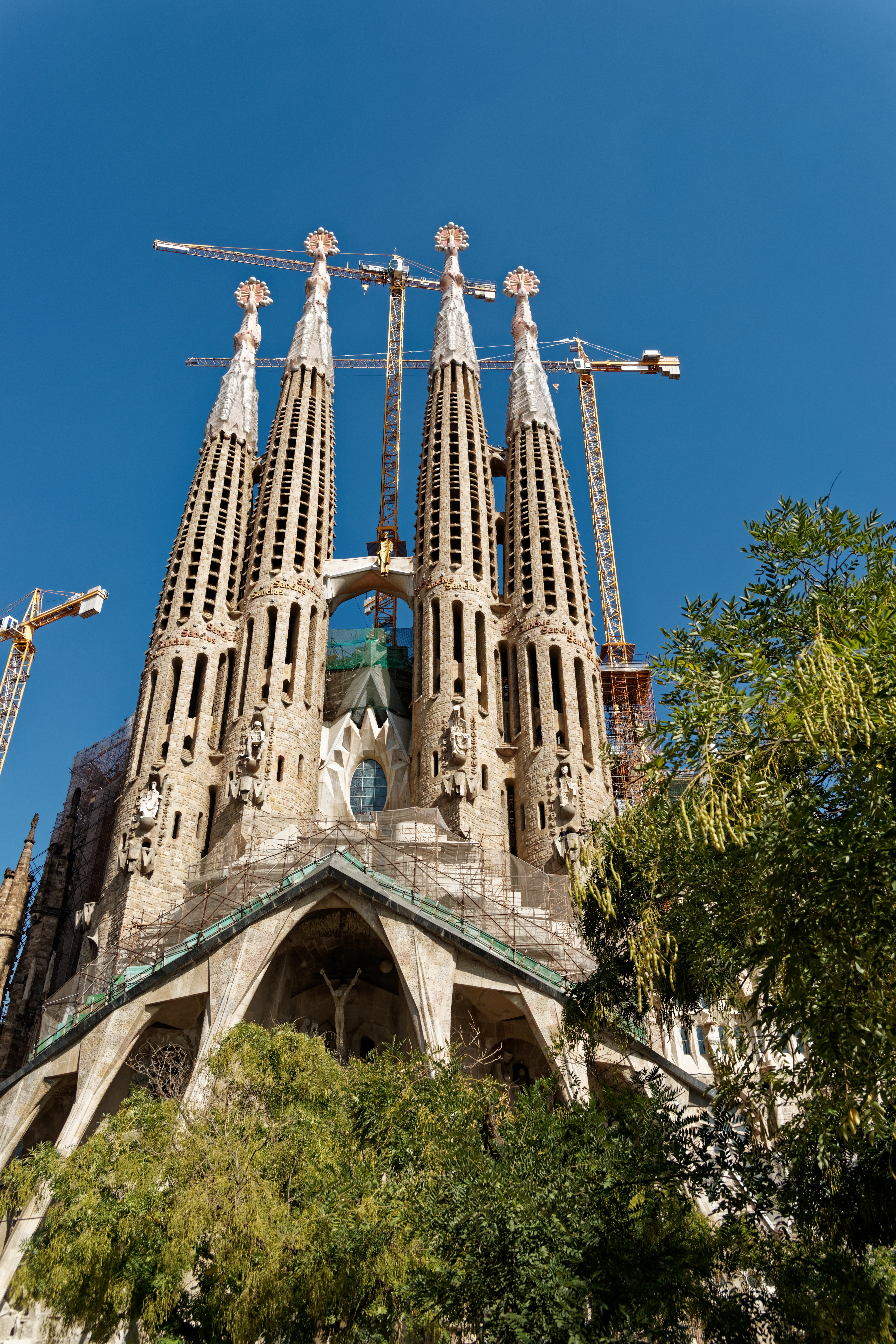 Barcelona - Plaça de la Sagrada Família - View NNE on La Sagrada Família - Passion façade